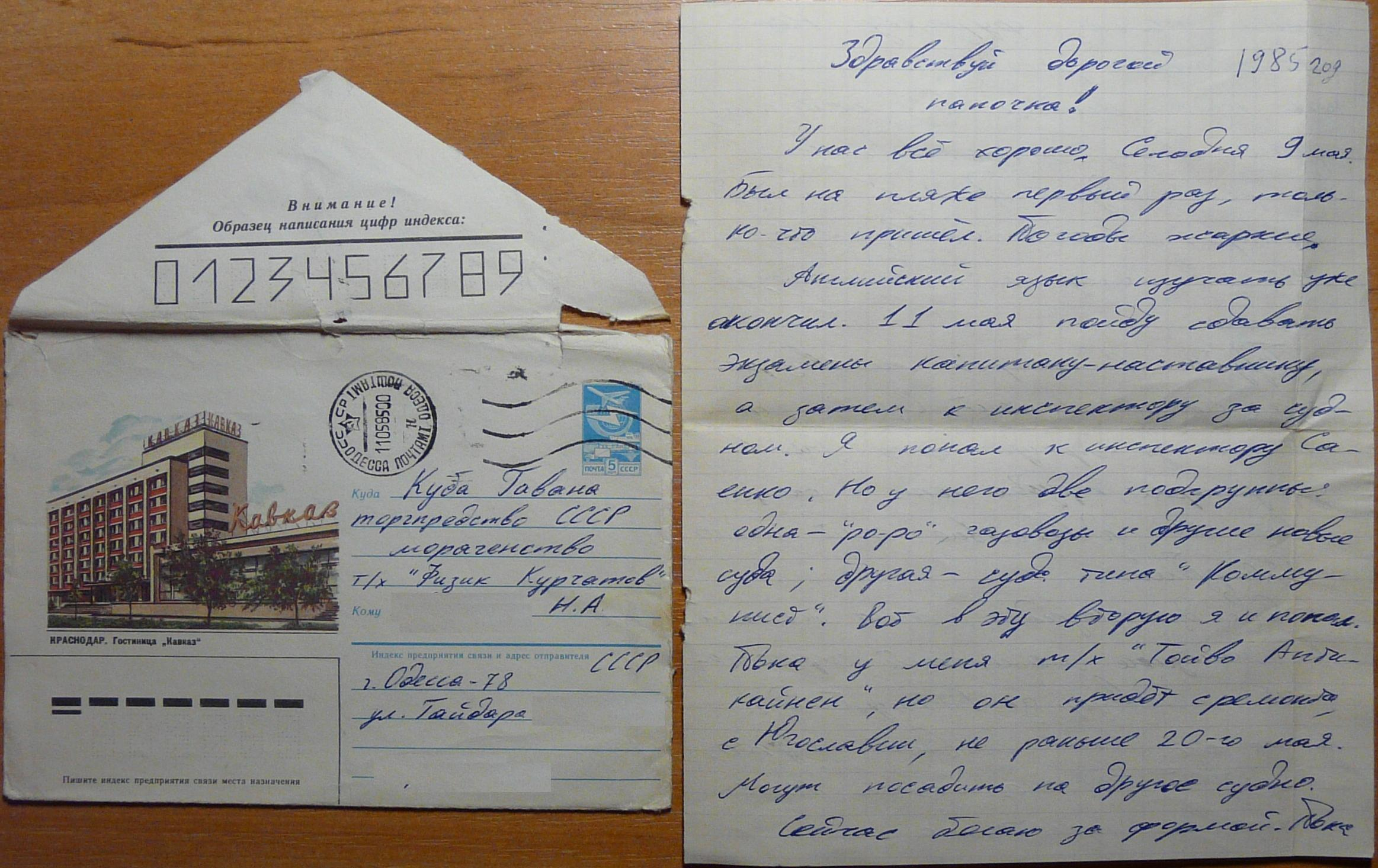 The letter from Odessa to placed on Cuba Sovit ship Fizik Kurchatov. The letted dated 09 of May 1985. The son wrote this letter to his father. This letter about the Soviet ships Toyvo Antikaynen also.